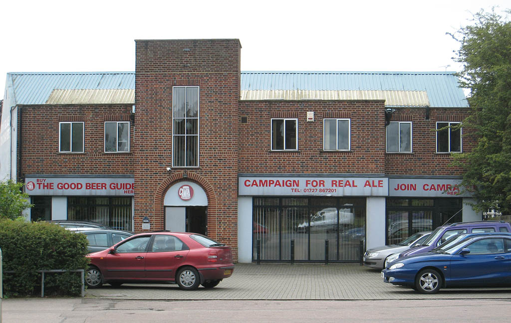 The CAMRA headquarters on Hatfield Road, St Albans.